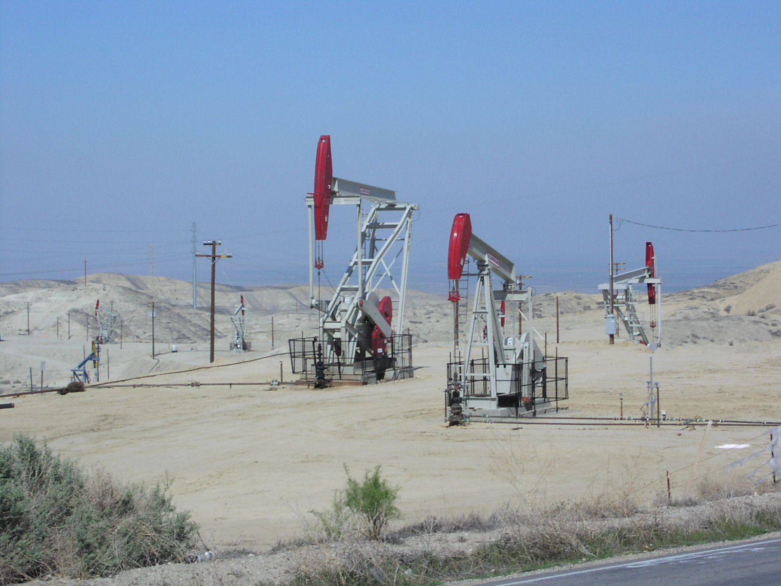 Three active oil wells (in foreground), Elk Hills Oil Field, off of Elk Hills Road south of Buttonwillow, California.